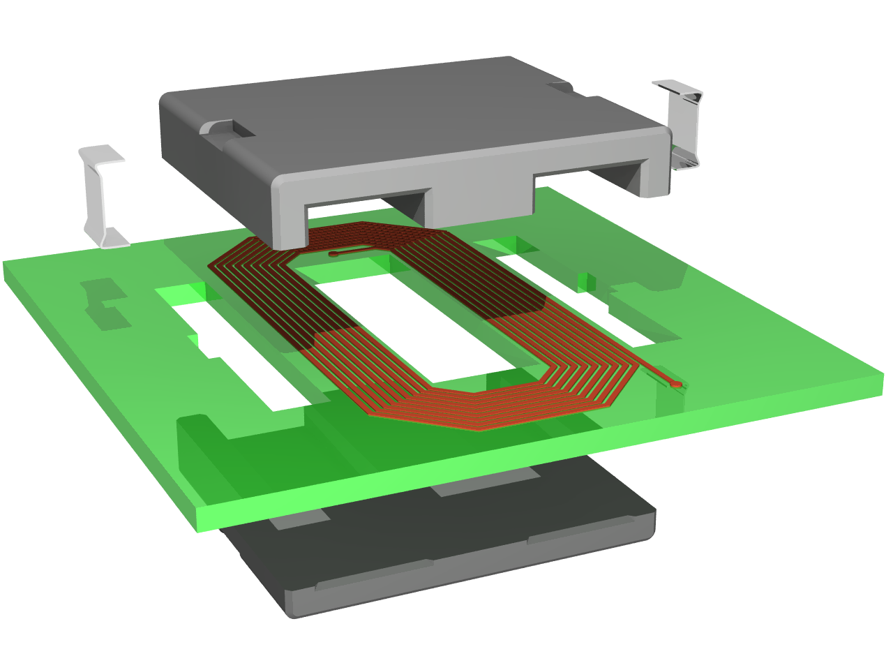 Exploded view of an planar inductor constituted by a spiral track on a printed circuit board and a planar magnetic core